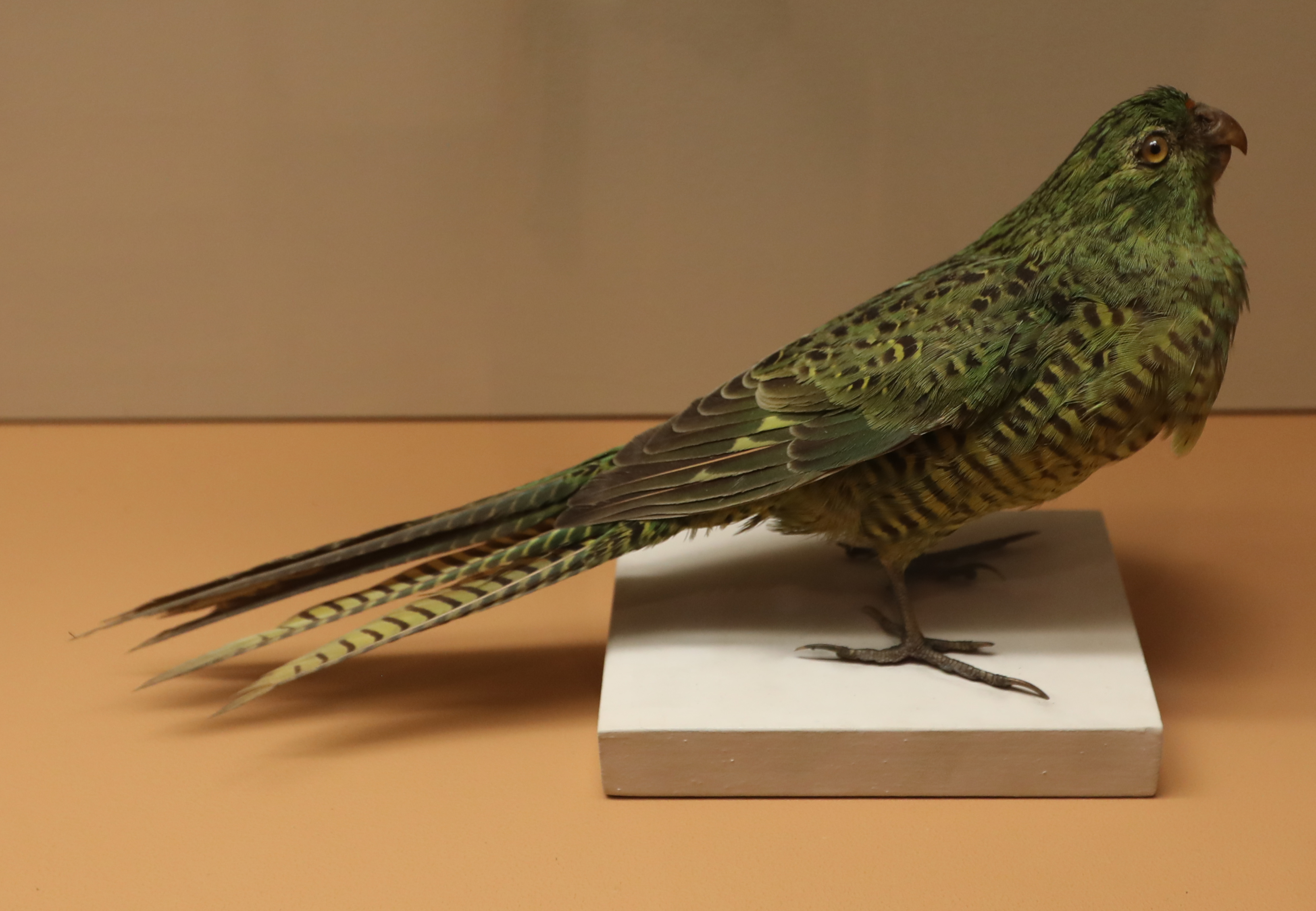 Photo of a taxidermied Pezoporus wallicus (Eastern ground parrot)